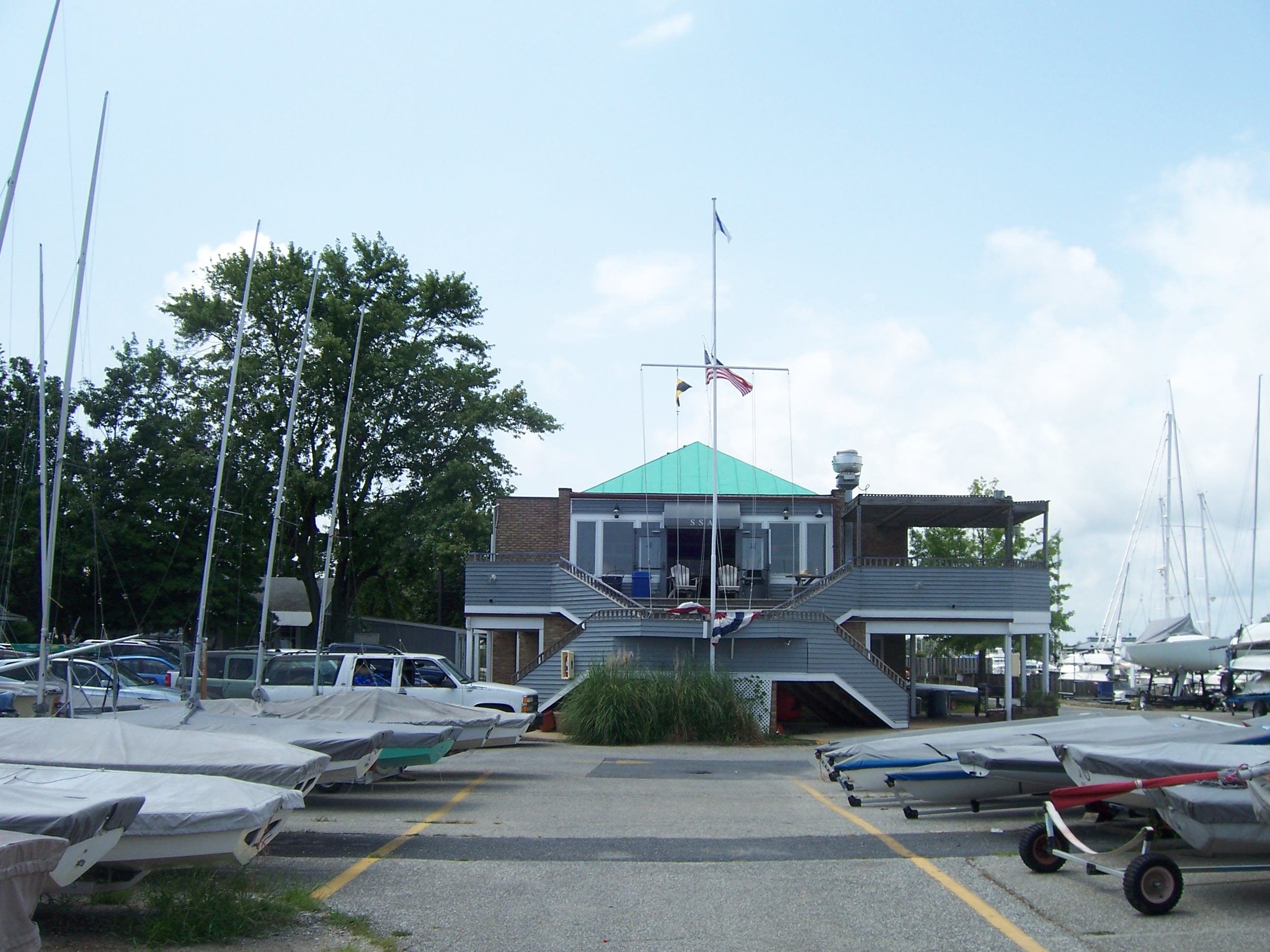 Severn Sailing Association clubhouse